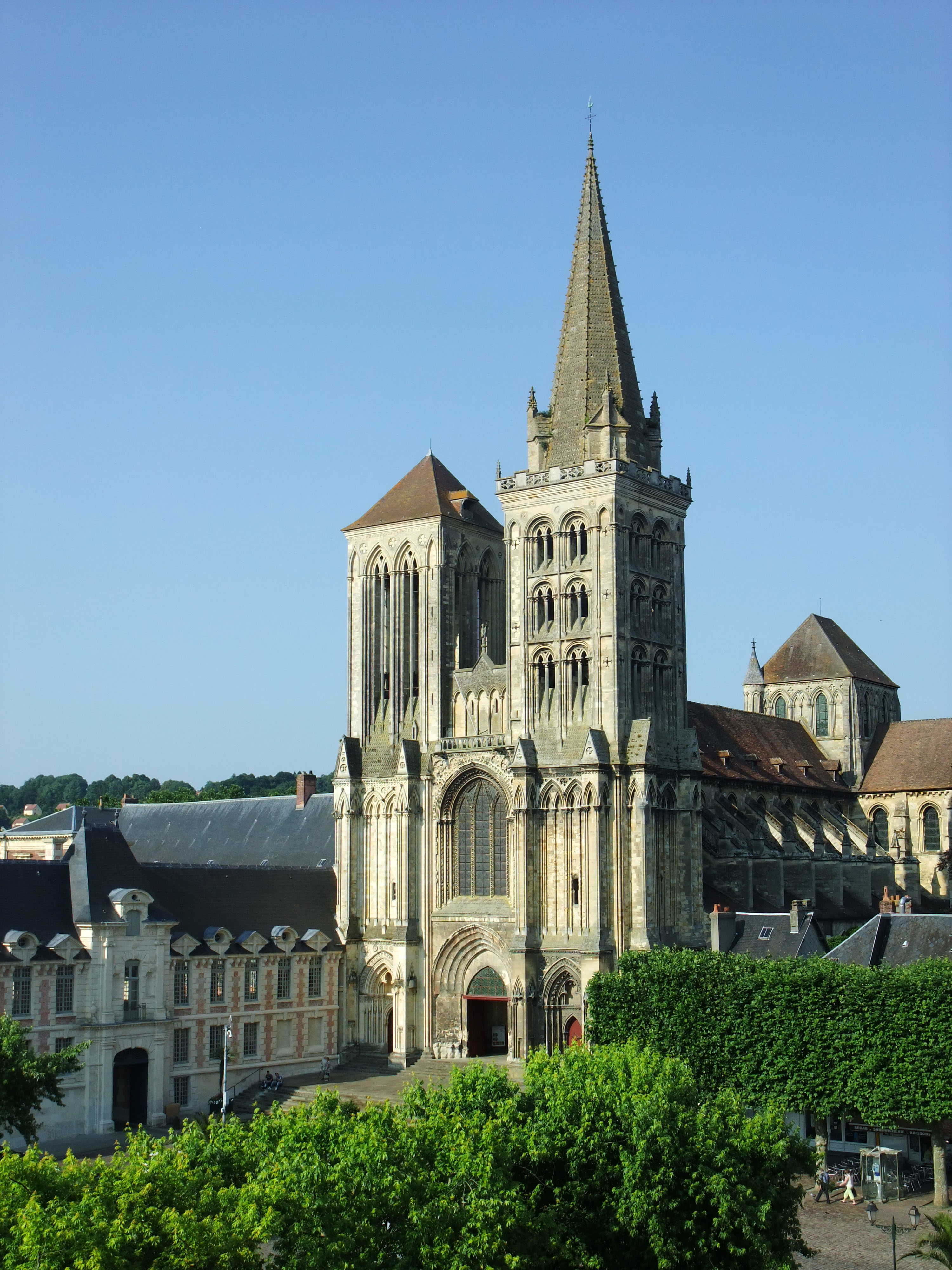 Cathedral Saint-Pierre in Lisieux, France